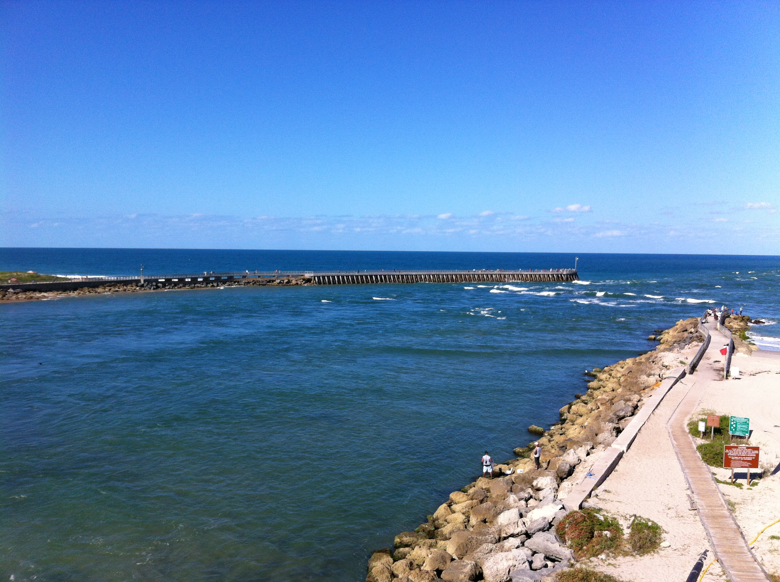 Sebastian Inlet, Florida. The North Jetty is on the left and the South Jetty is on the right. Photograph taken from the Sebastian Inlet Bridge on Florida State Highway A1A.